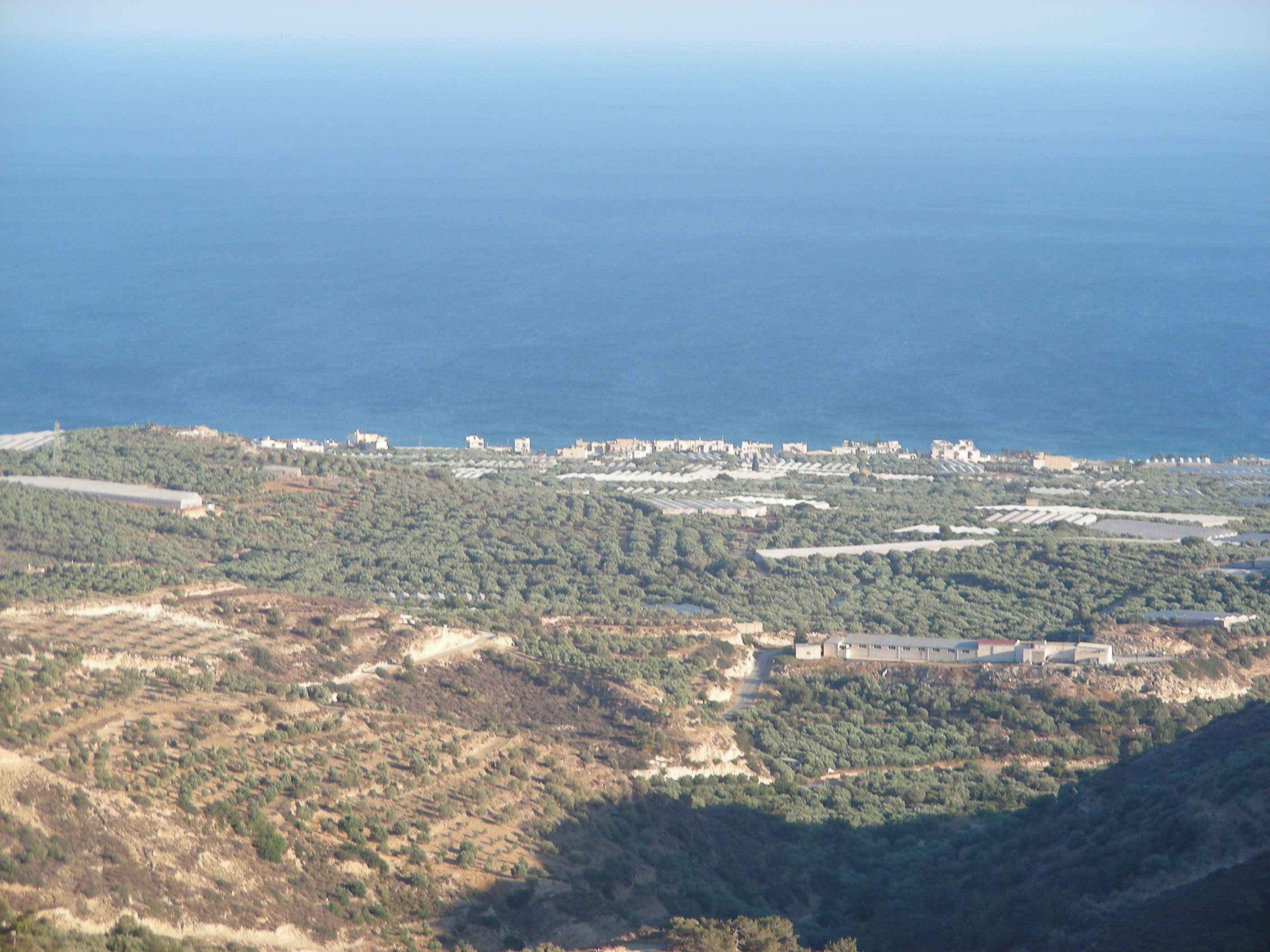 Another view from Koutsouras.